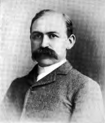 William Bullock Clark.